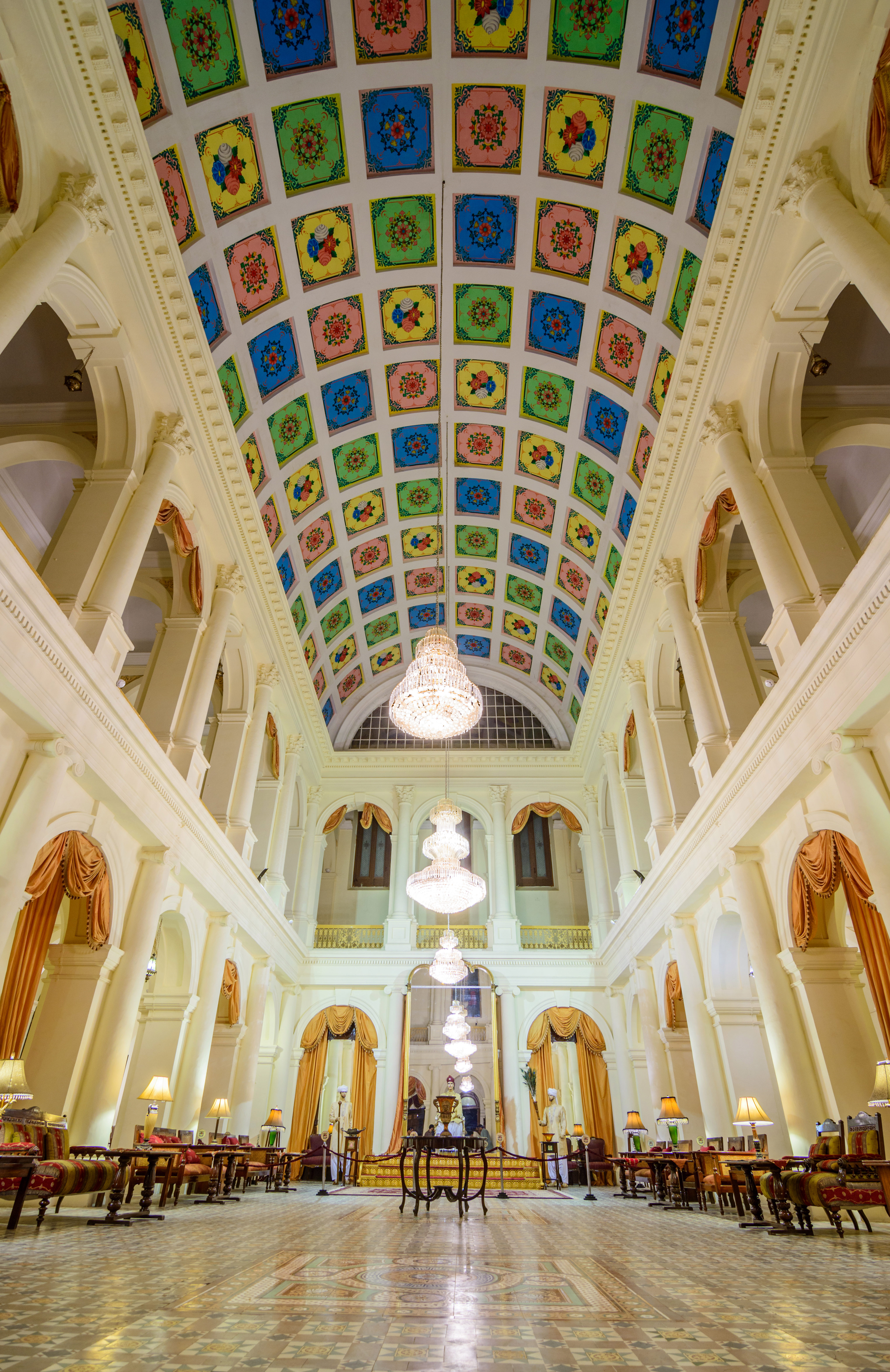 Noor Mahal This is a photo of a monument in Pakistan identified as the PB-15